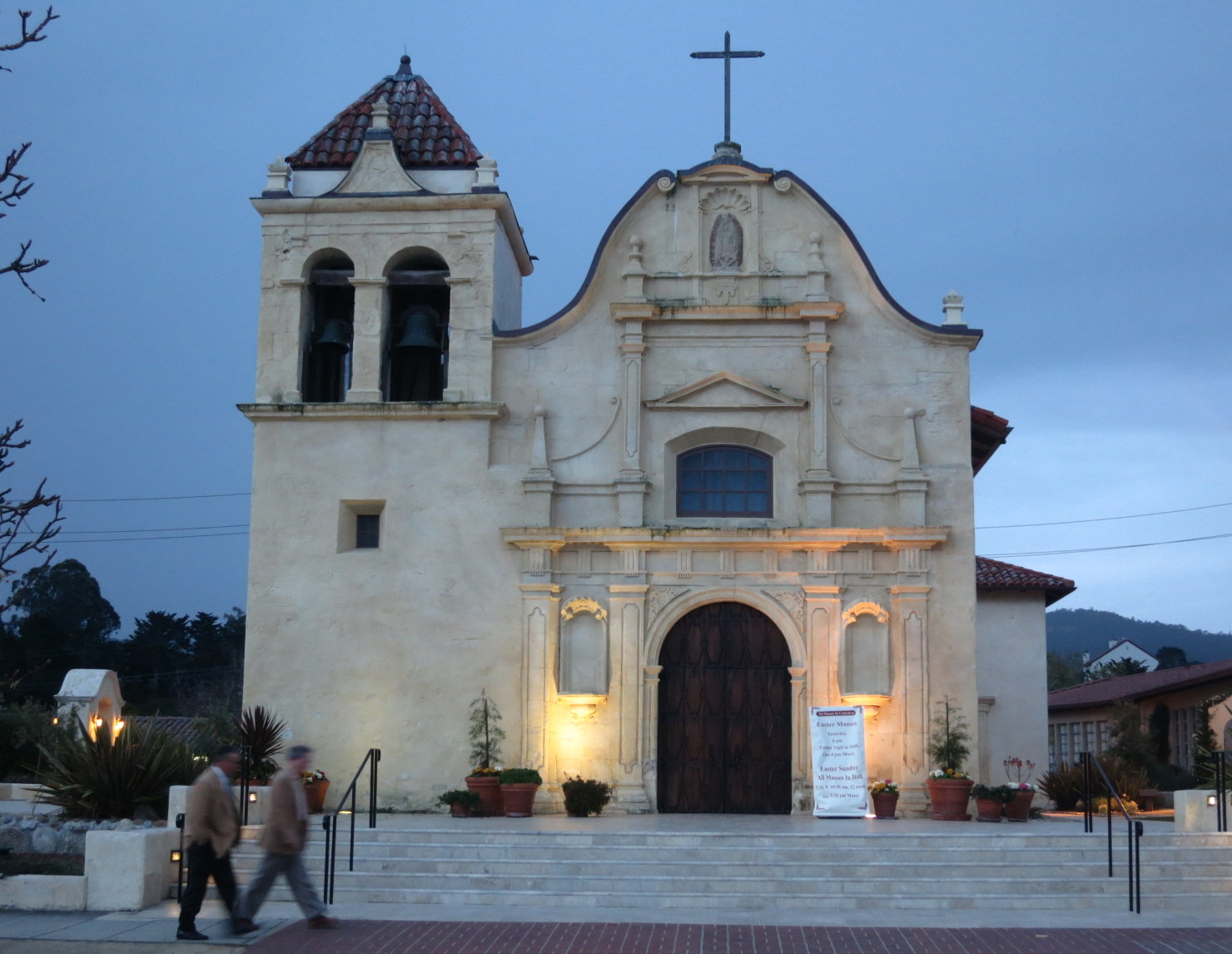 San Carlos Borromeo Cathedral (Monterey, CA) - exterior, at dusk